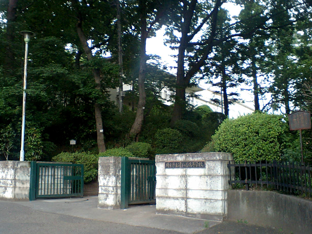 the main school gate of Urawanishi High School